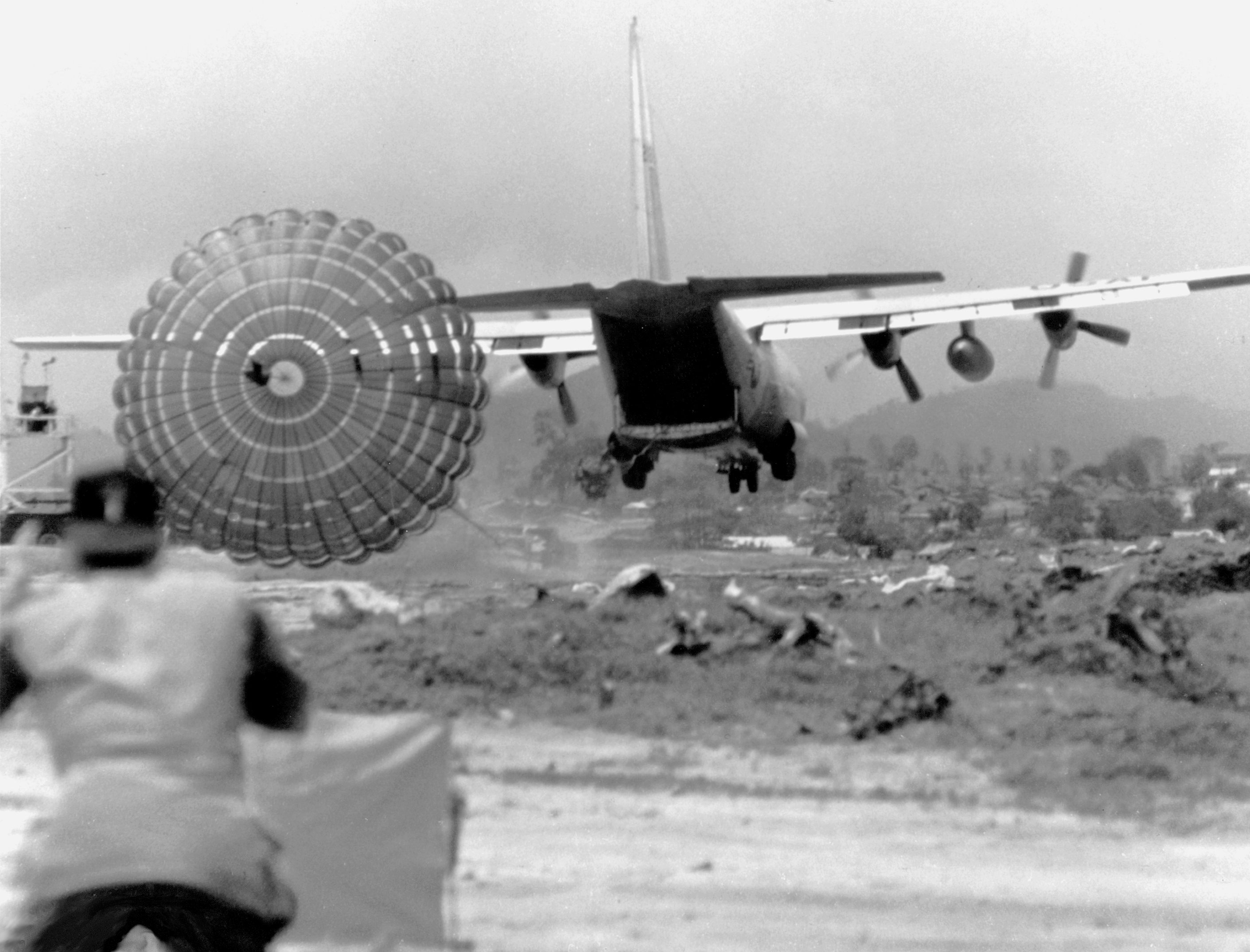 Using the Low Altitude Parachute Extraction System (LAPES), a U.S. Air Force C-130 Hercules crew delivers a load of supplies to the U.S. Army 1st Cavalry Division at An Khe. With LAPES, platform-mounted loads are pulled from the rear of a transport plane at an altitude of about five feet. The delivery system is designed for resupply to narrow drop zones. The photo was taken ca. in 1965-66, as the C-130 is not camouflaged, yet.